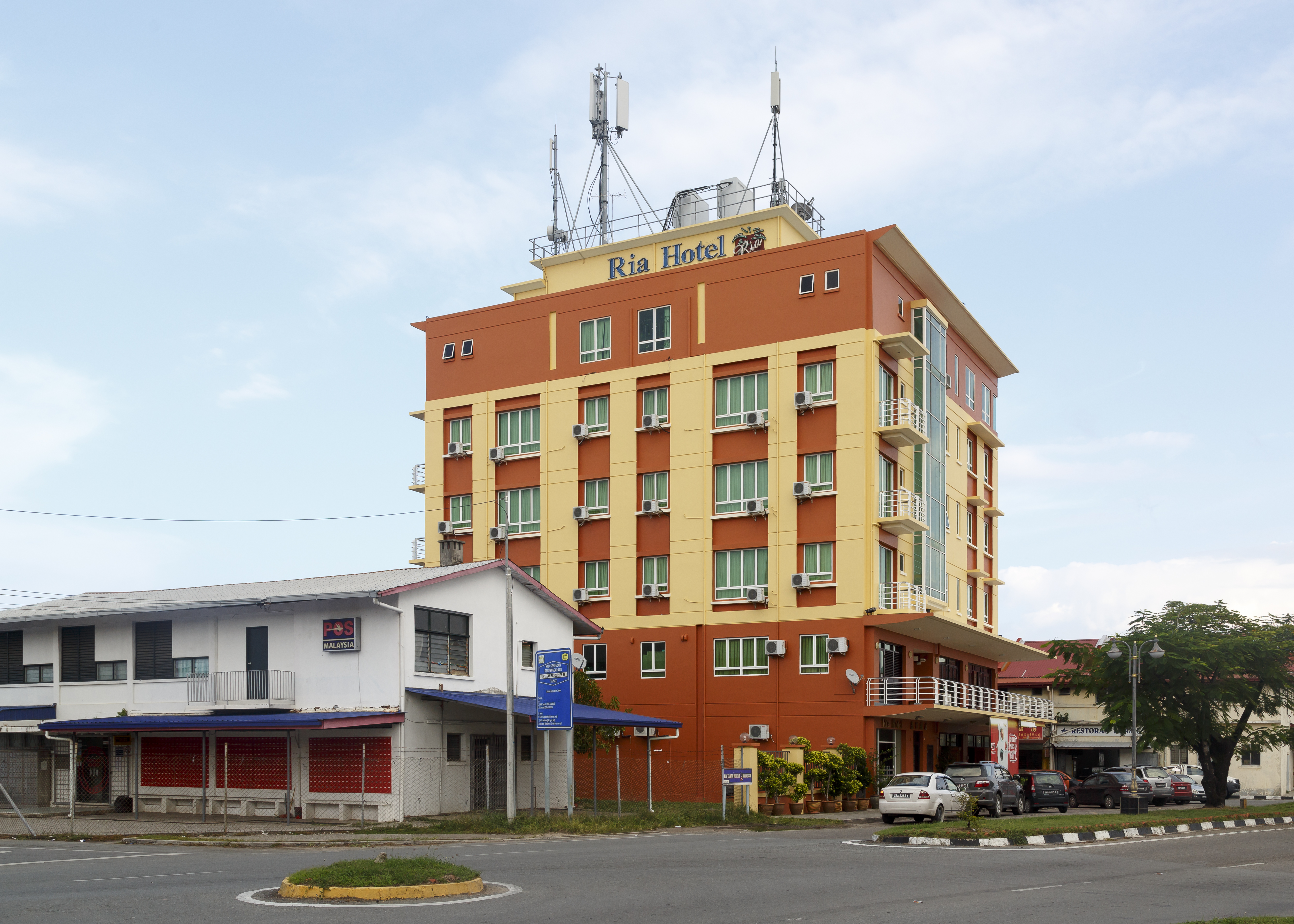 Kudat, Sabah: Ria Hotel. The building at the left side is the post office